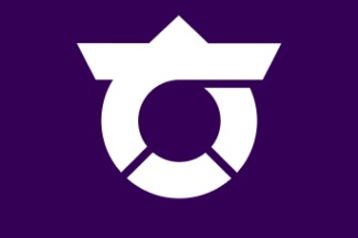 Flag of Takayama Gunma